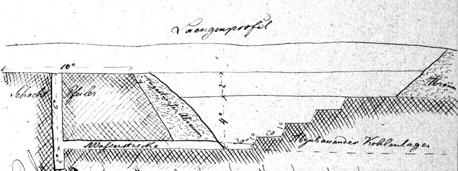 benching of brown coal